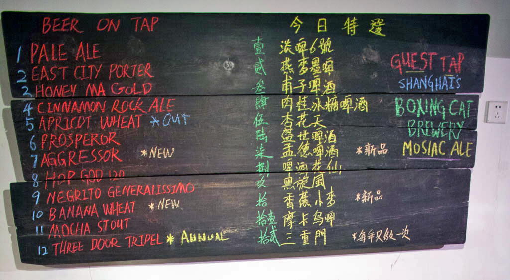 Great Leap Brewing beer menu